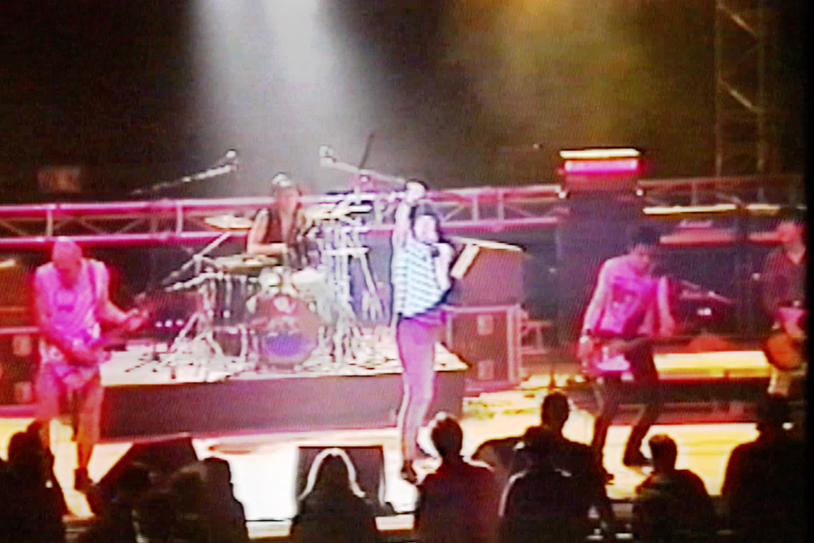 The Golden Horde, live: (left to right): Des O'Byrne, Peter O'Kennedy, Simon Carmody, John Connor & Sam Steiger.